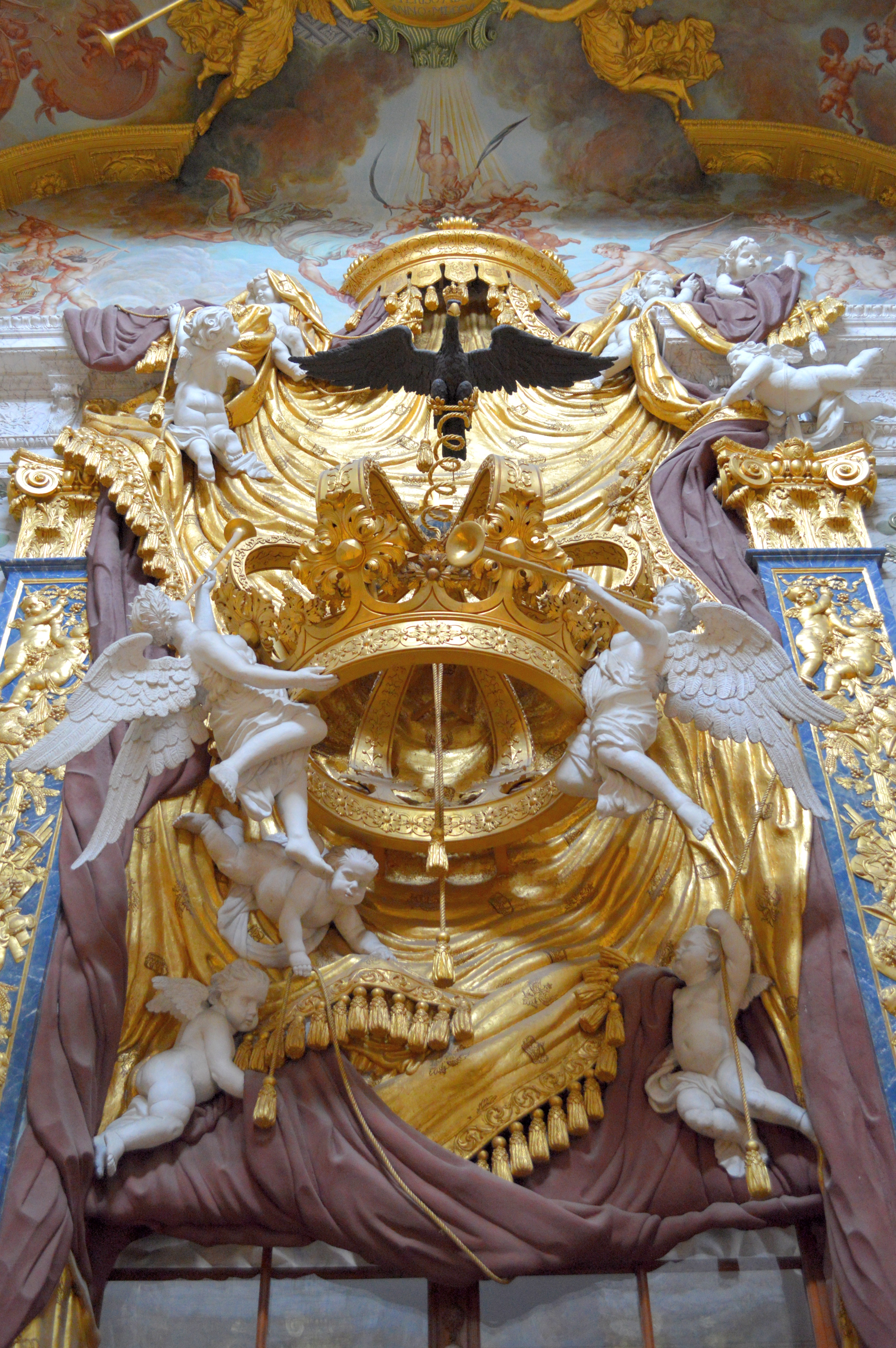 Crown in the chapel of Charlottenburg Palace.